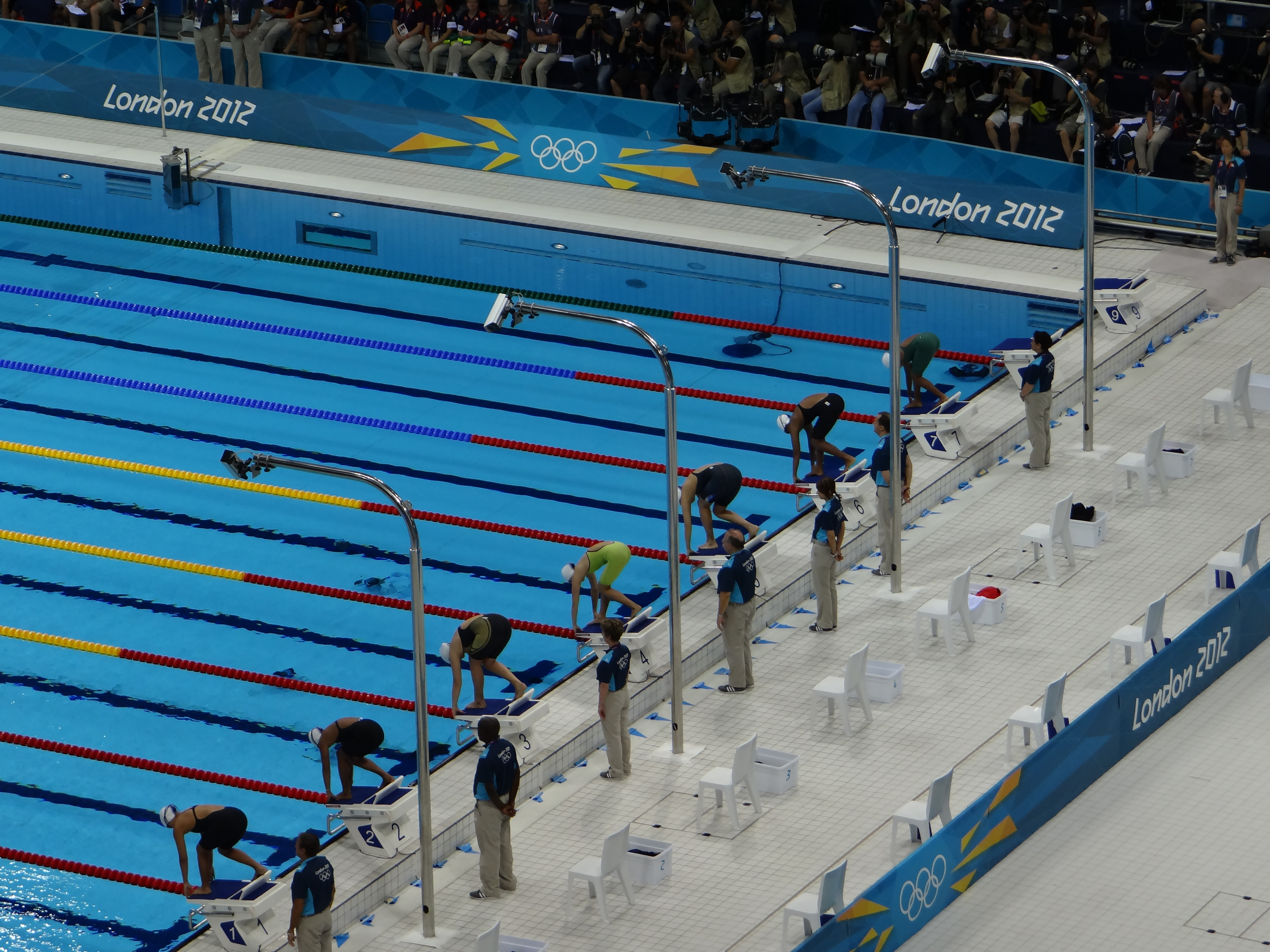 London 2012 Olympics Aquatics Centre. Women's 100m Freestyle (assuming the time of 10:03 is correct)